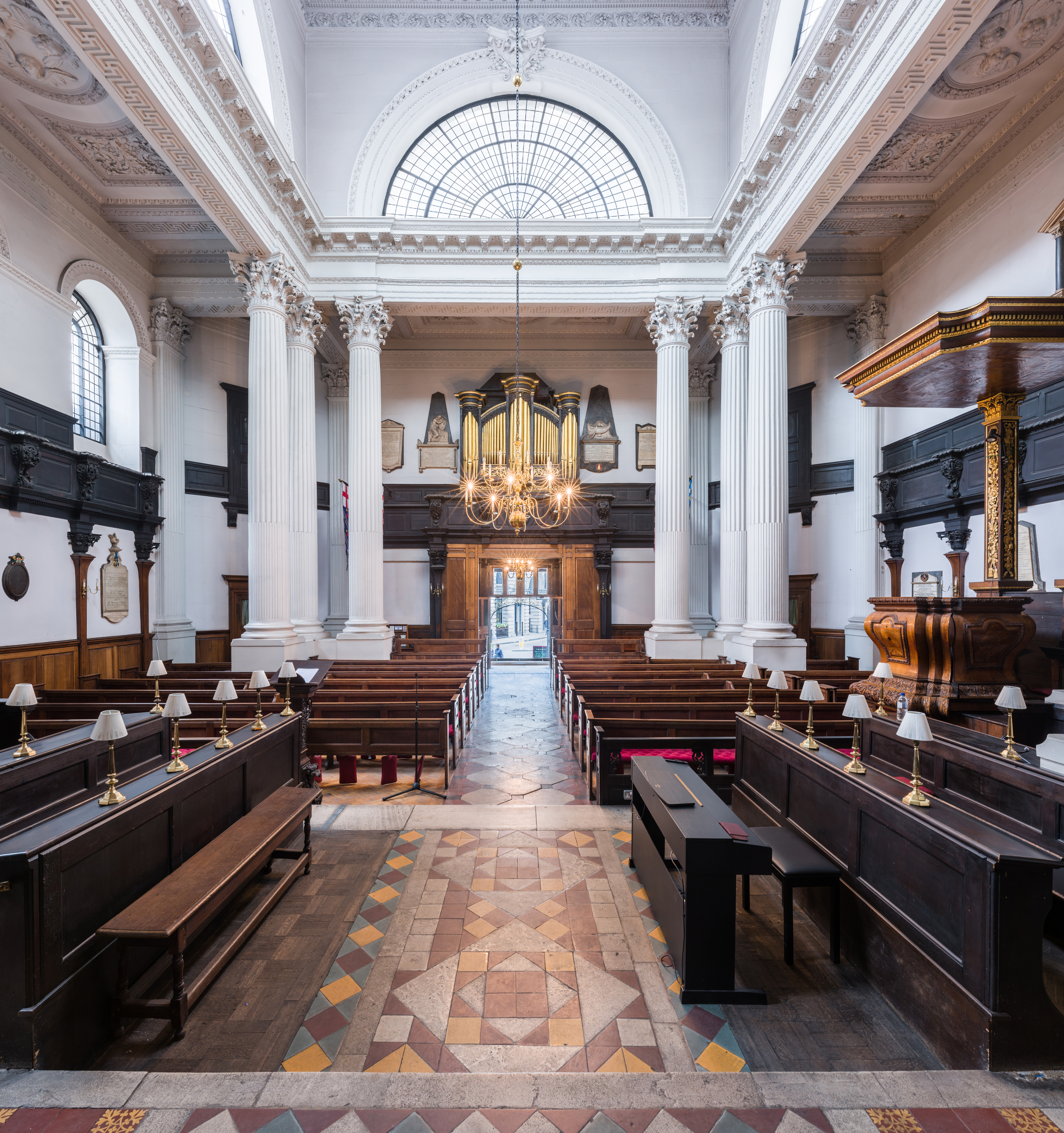 The view west looking towards the entrance of St Mary Woolnoth from the altar.